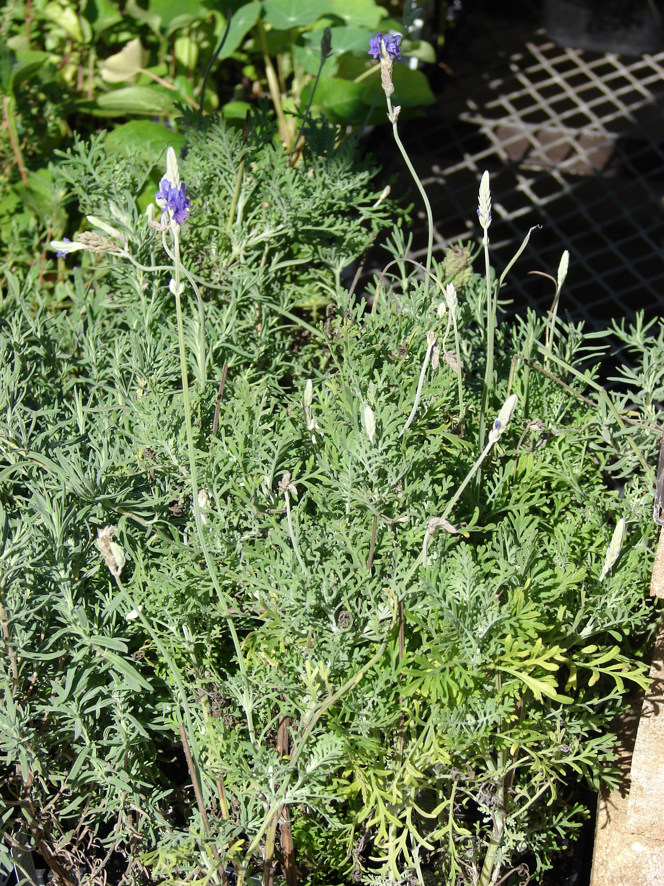 Lavandula multifida (habit). Location: Maui, Lowes Garden Center Kahului